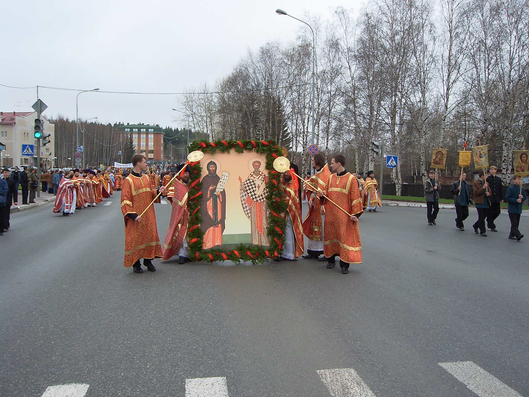 Celebration of Saints Cyril and Methodius Days in Khanty-Mansiysk, Russia on 11 May 2006